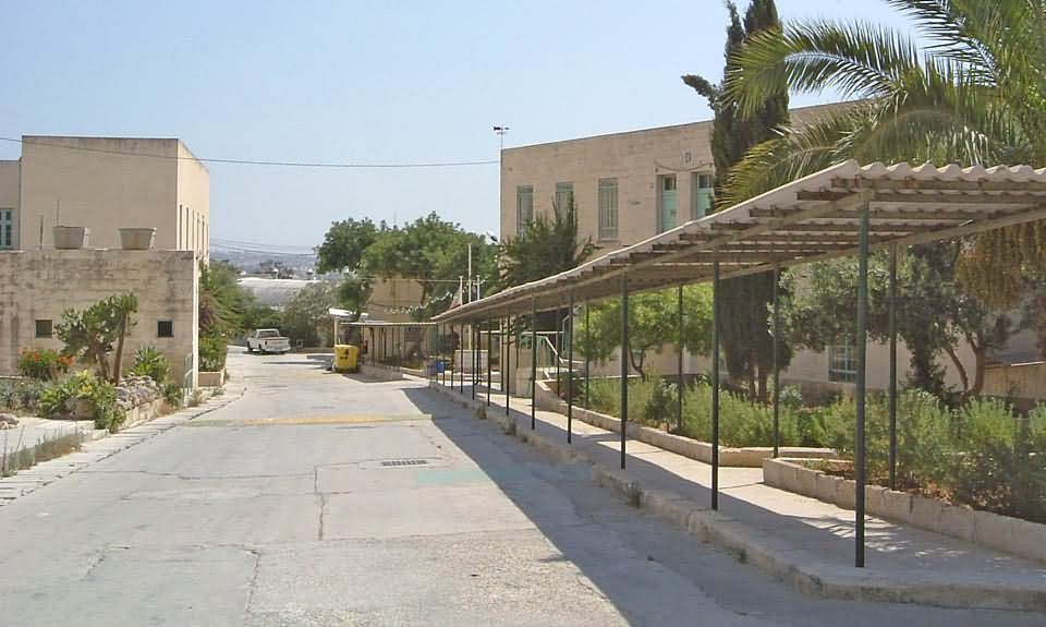 Royal Naval School Tal-Handaq. Photo looking down the hill towards the School Hall and Admin Block taken during a visit to the school (now Liceo M.A. Vassalli) in July 2004. This is just one of several hundred photographs of the school taken by Bruce Williams during visits to the school in 2004, 2005 and 2006 and viewable on his website at